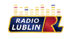 RadioLublin.gif